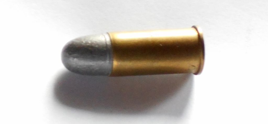 .44 Rus